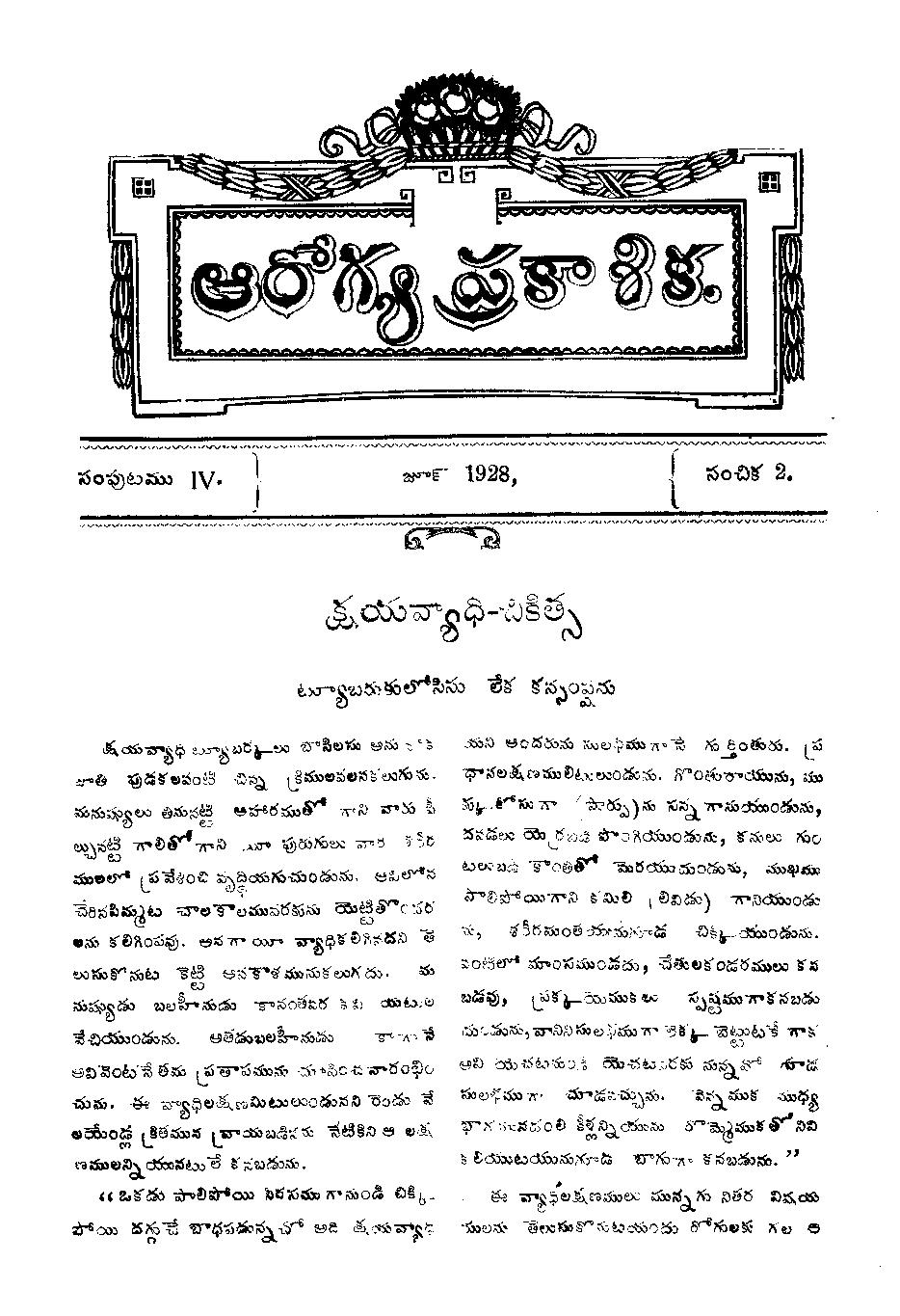 This is the front page of a health magazine in telugu puplished in 1928